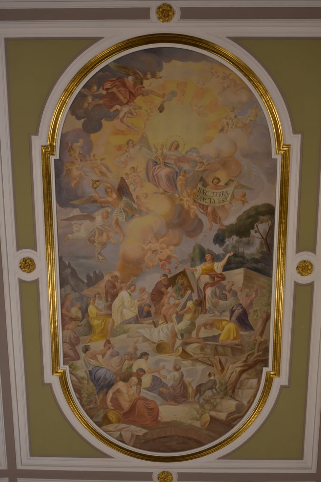 tela centrale soffitto basilica materdomini